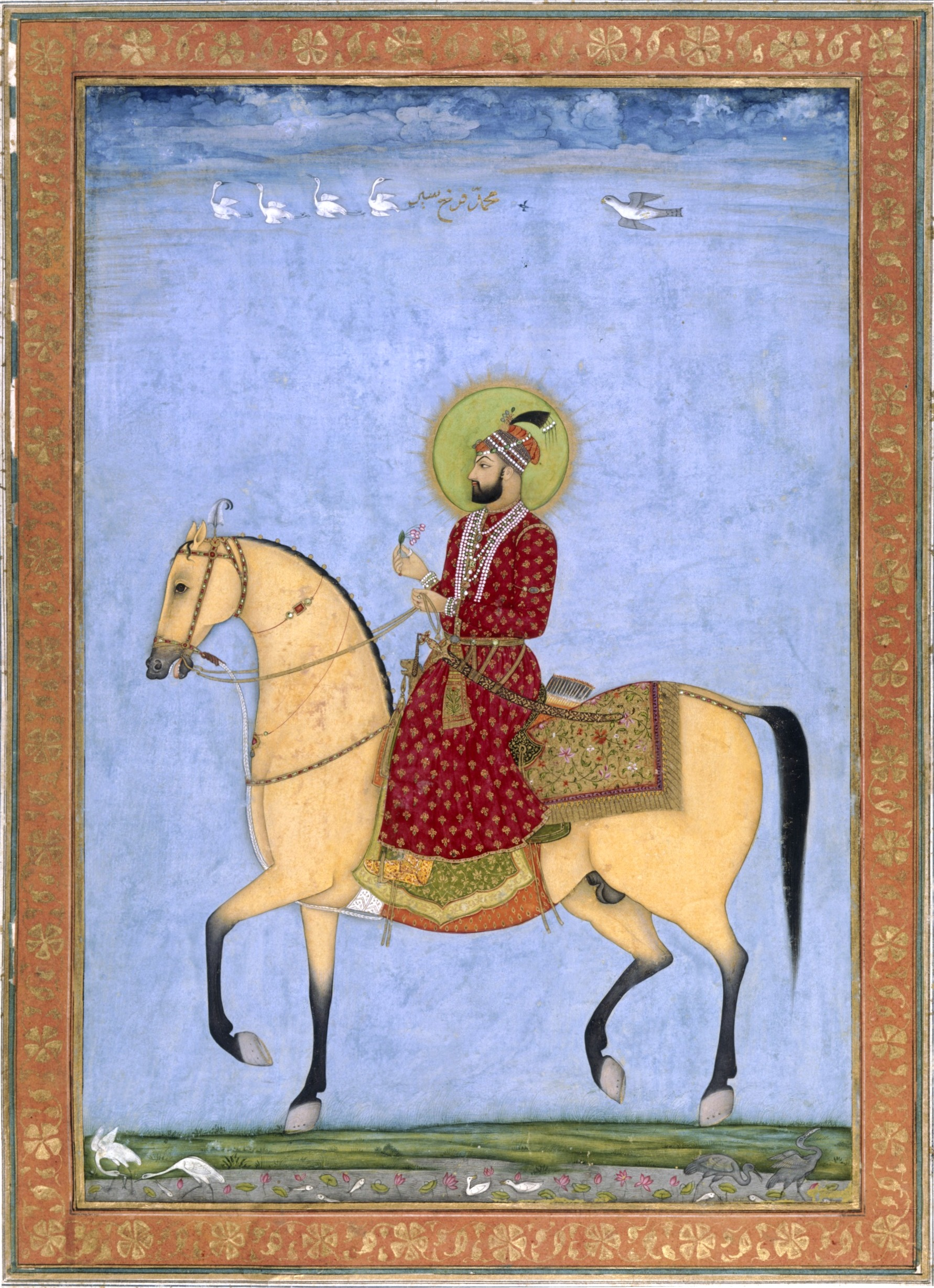 Painting, on album page, in opaque watercolour and gold on paper, the emperor Muhammad Farrukhsiyar, on horseback. He wears a dark red belted robe with all-over gold embroidered design.